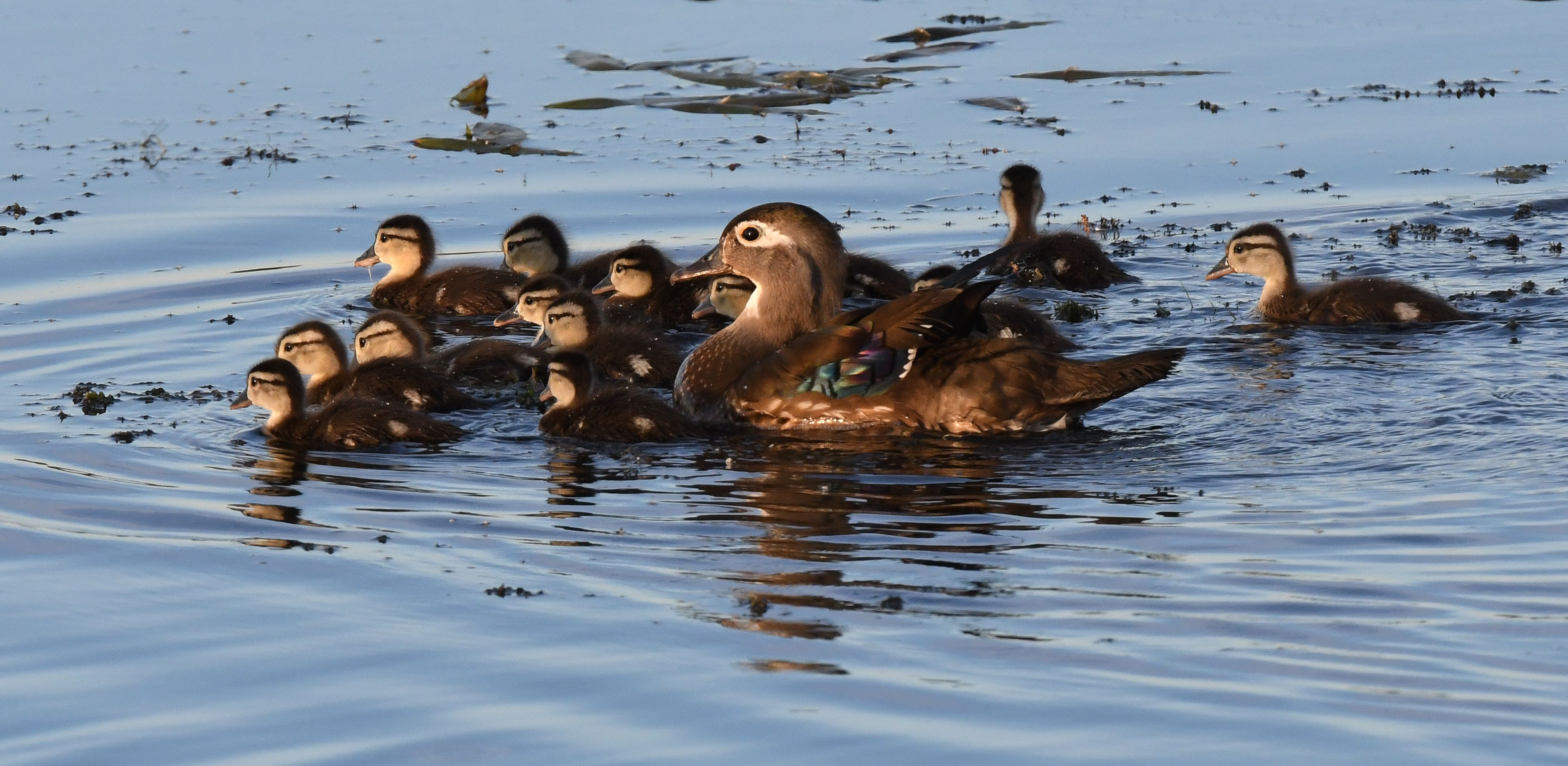 Photo by Jim Hudgins/USFWS.